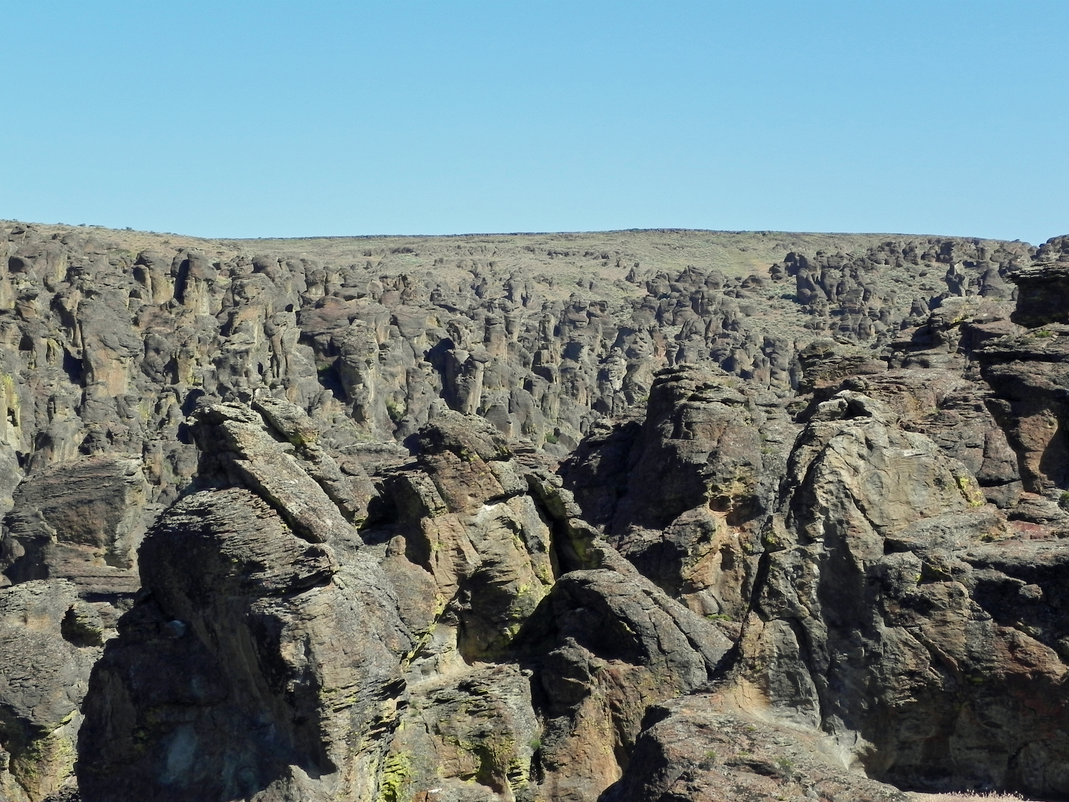 The Little City of Rocks — between Gooding and Fairfield, Idaho